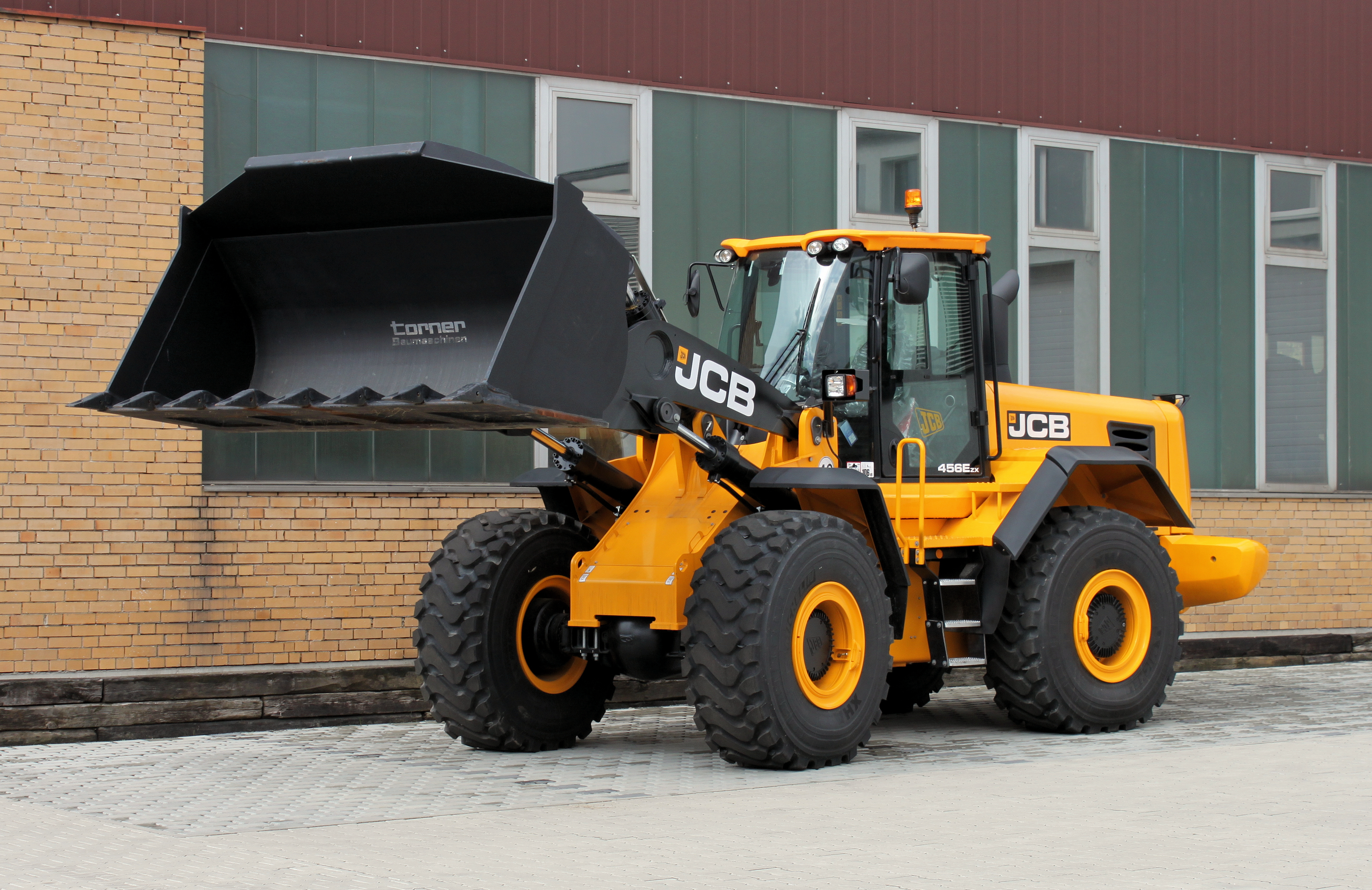 loader JCB 456Ezx